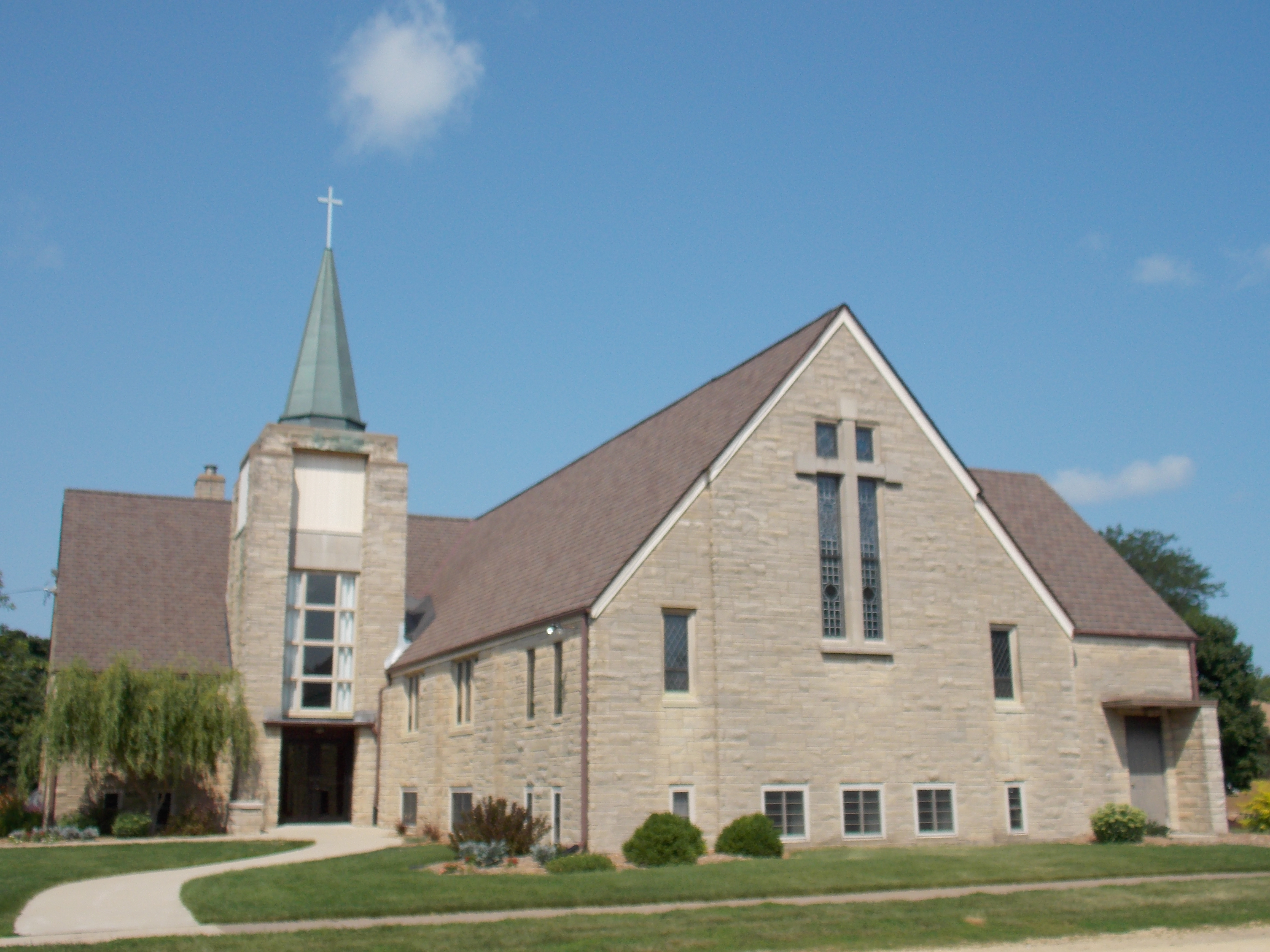 Faith Lutheran Church (ELCA) in Calamus, Iowa.